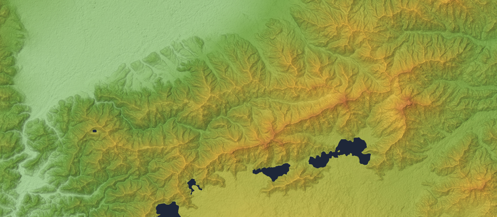 Misaka Mountains in Yamanashi Prefecture, Honshu, Japan.